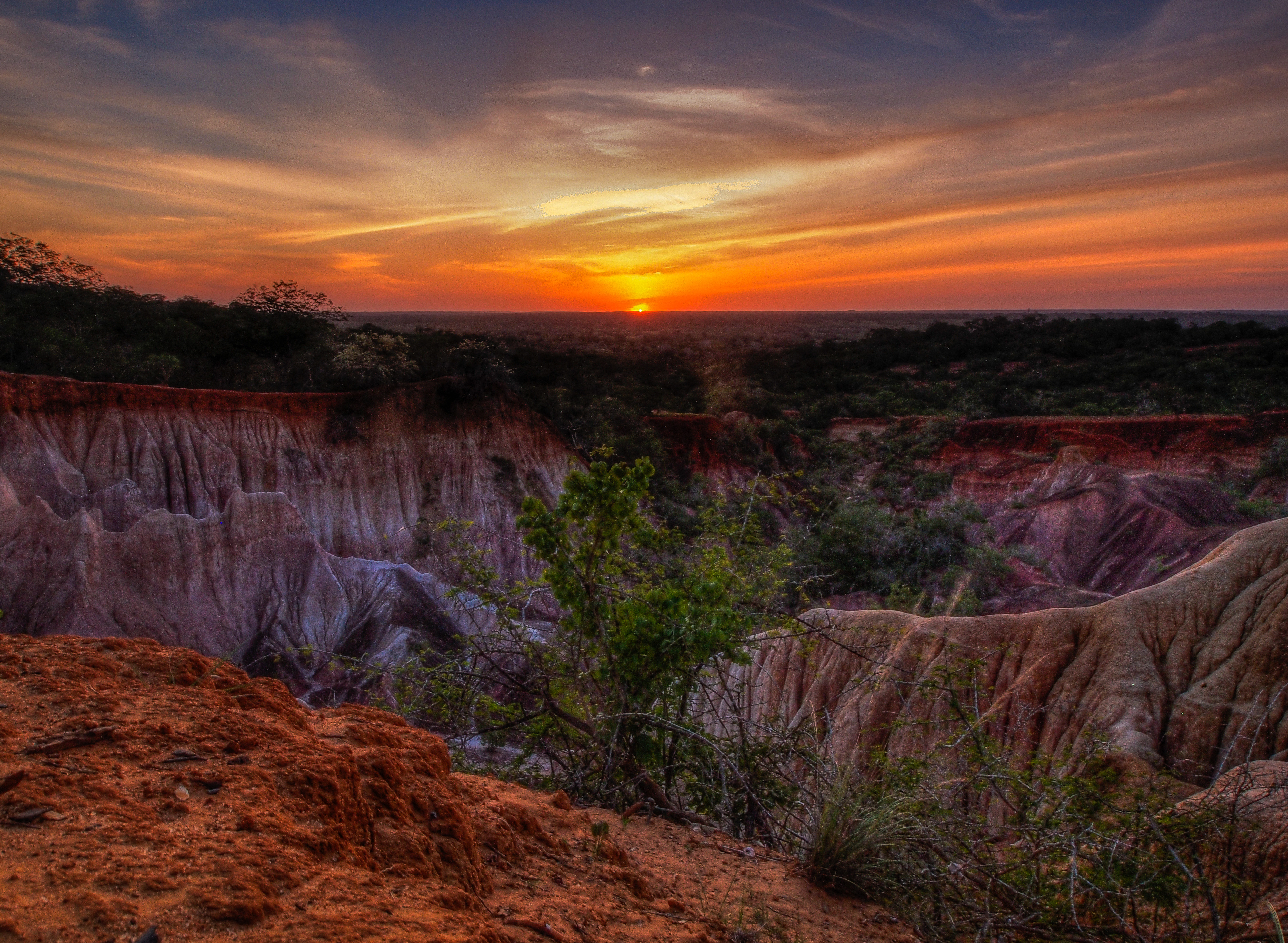 Marafa sunset - kenya